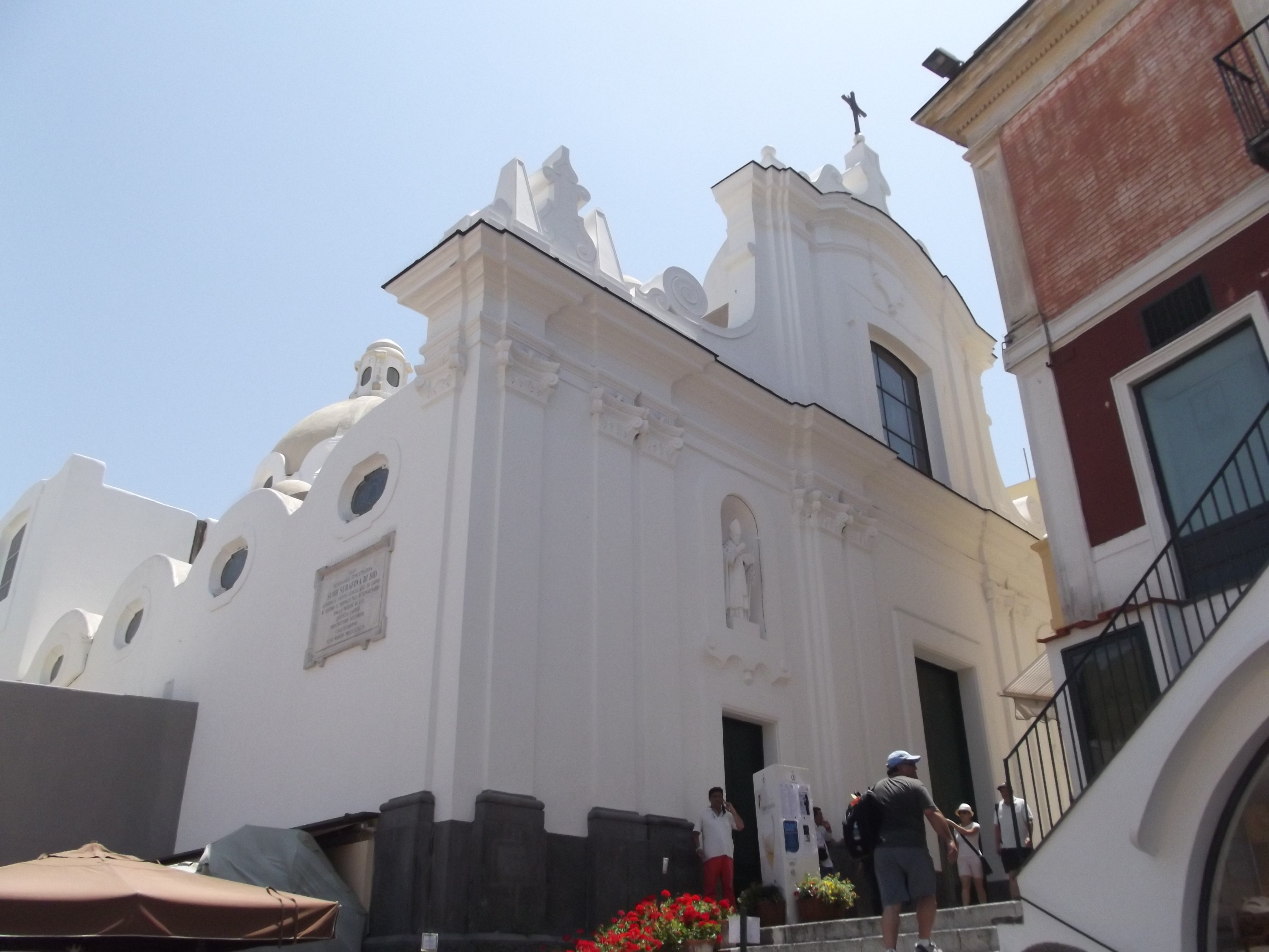 Ancient cathedral "Santo Stefano" of Capri (Italy)